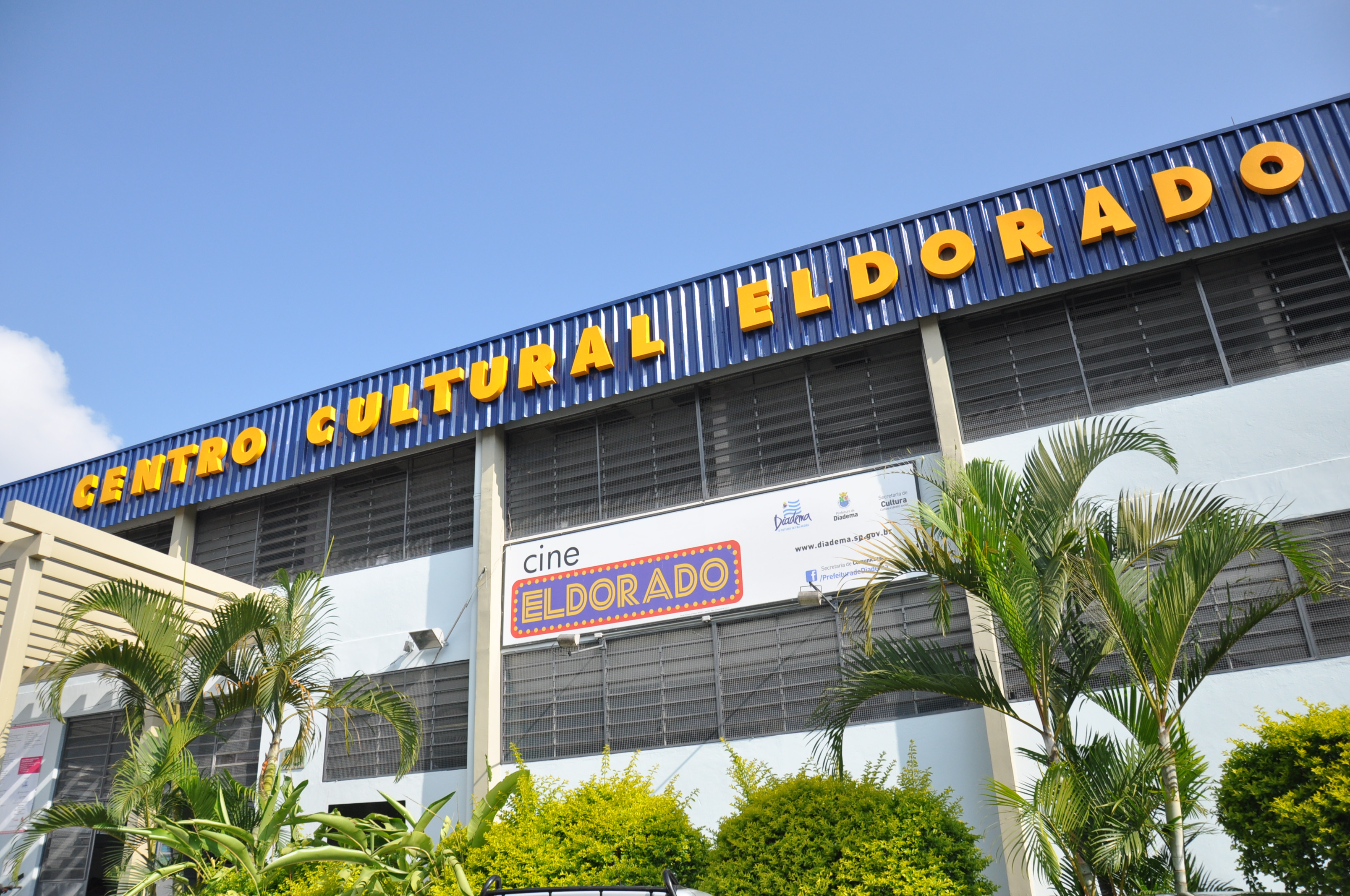 Cine Eldorado